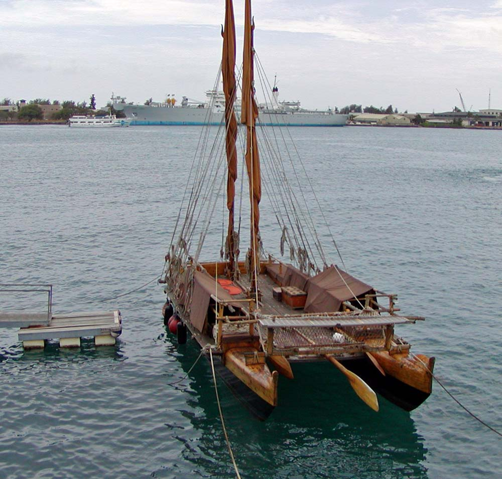 Photo of Polynesian canoe replica Hawai'iloa in Honolulu harbor